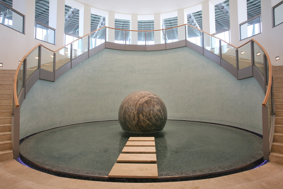 Palacongressi di Rimini The pearl